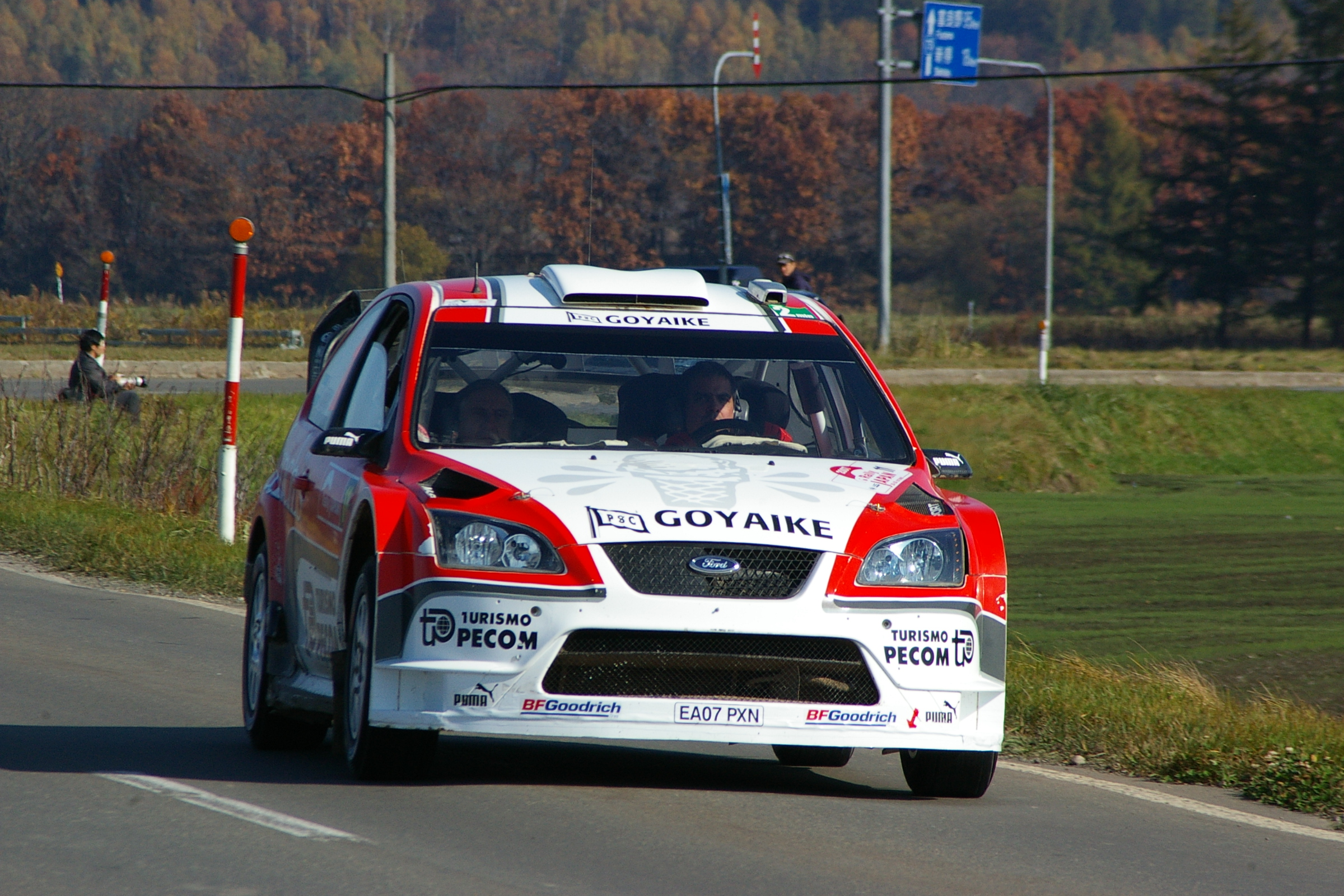 Luis PEREZ COMPANC on FORD Focus RS WRC06, Rally Japan 2007.